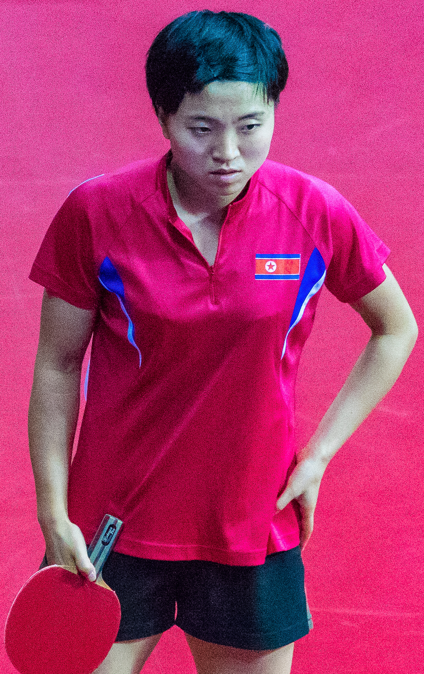 2017 Taipei Summer Universiade